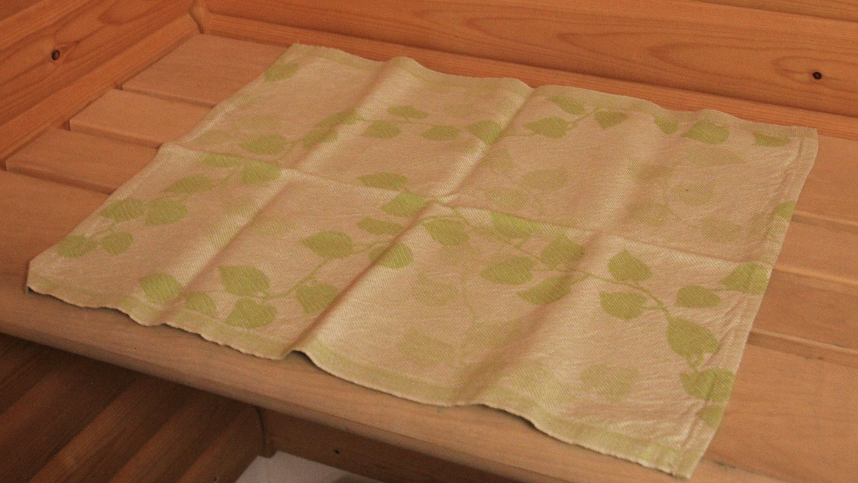 Linen pefletti (solo sauna bench cover), size approx. 51 cm * 41 cm.